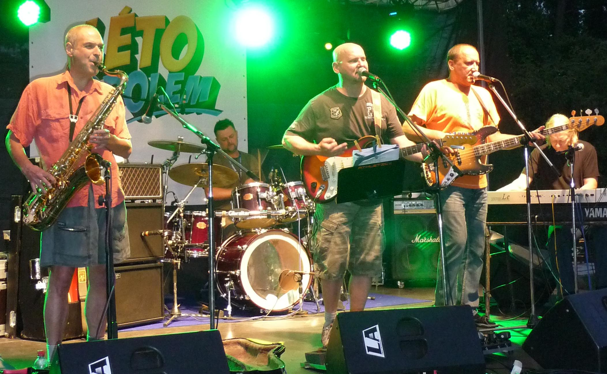 Buty group